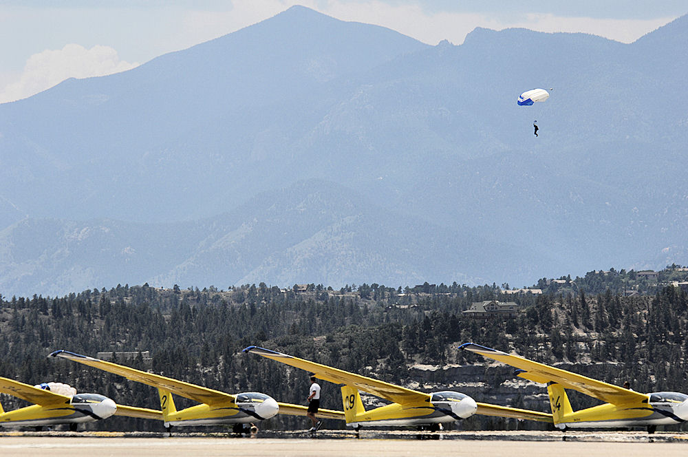 With cadets parachuting out of airplanes and flying gliders of the 306th Flying Training Group, the skies above the U.S. Air Force Academy are nearly always buzzing with activity.